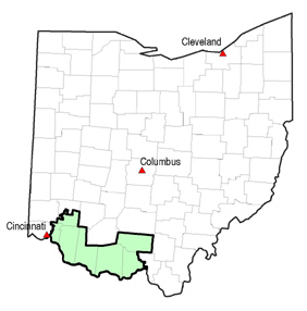 State of Ohio, showing counties and 2nd Congressional District. File made by Antandrus using ESRI ArcView and public domain data from the US Census.